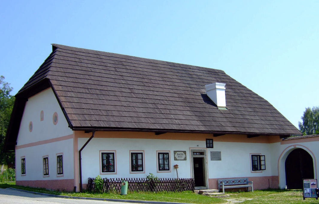 Birthplace of Adalbert Stifter in Horní Planá Aufnahme: 4. Juli 2006 Url